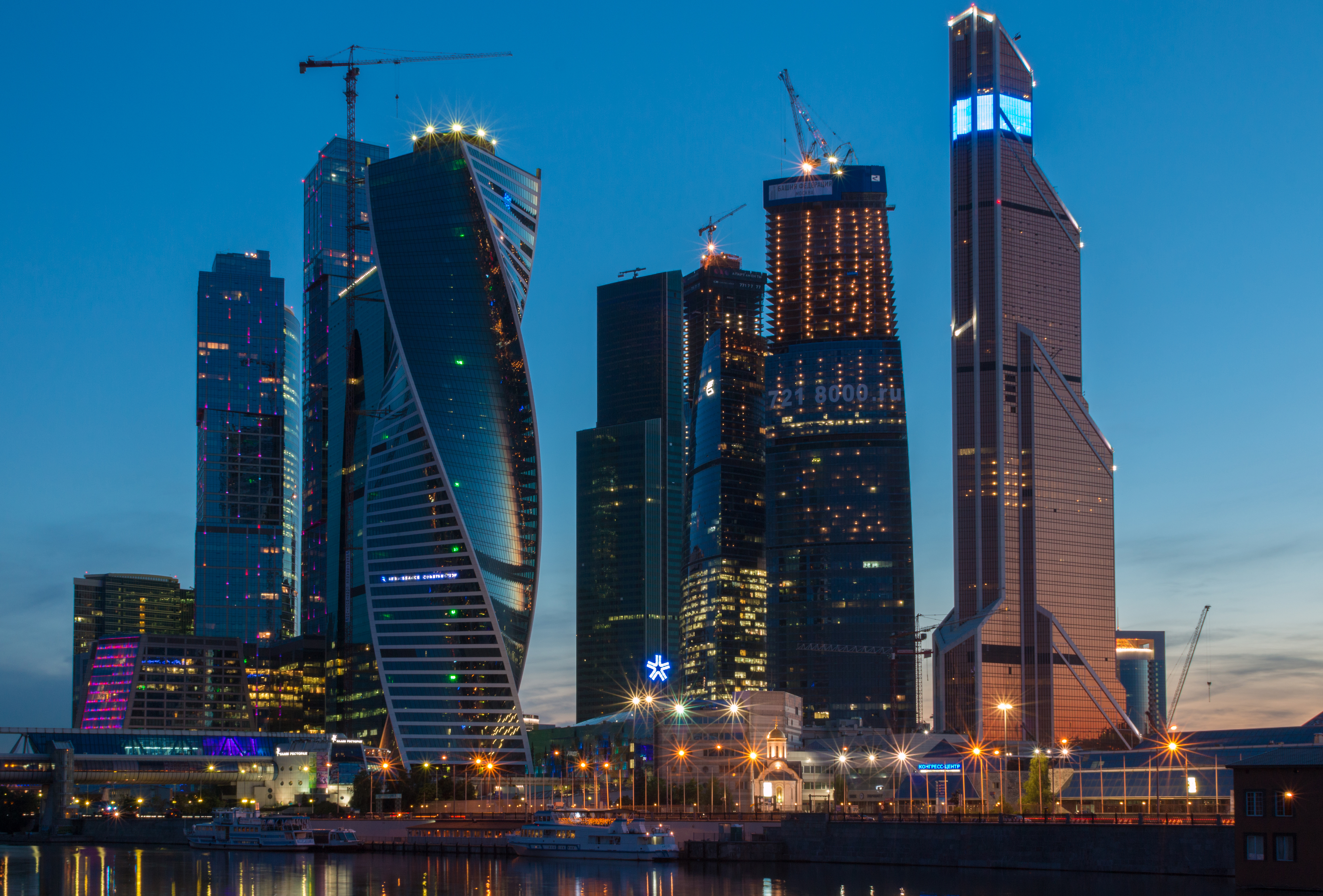 Moscow International Business Center on 14 July 2014